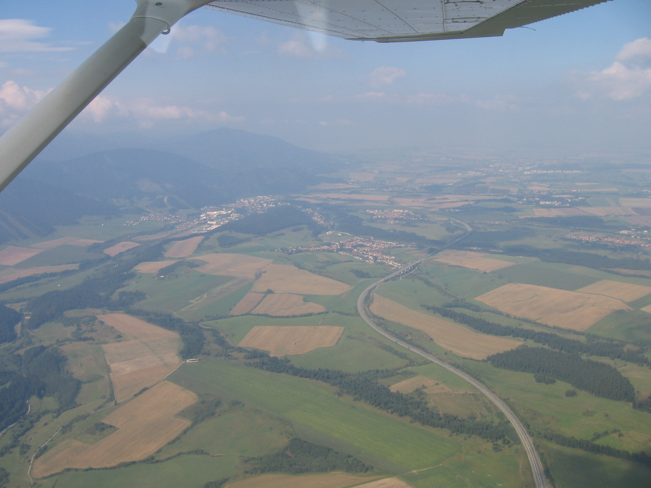 Slovak D1 highway near Liptovský Hrádok.